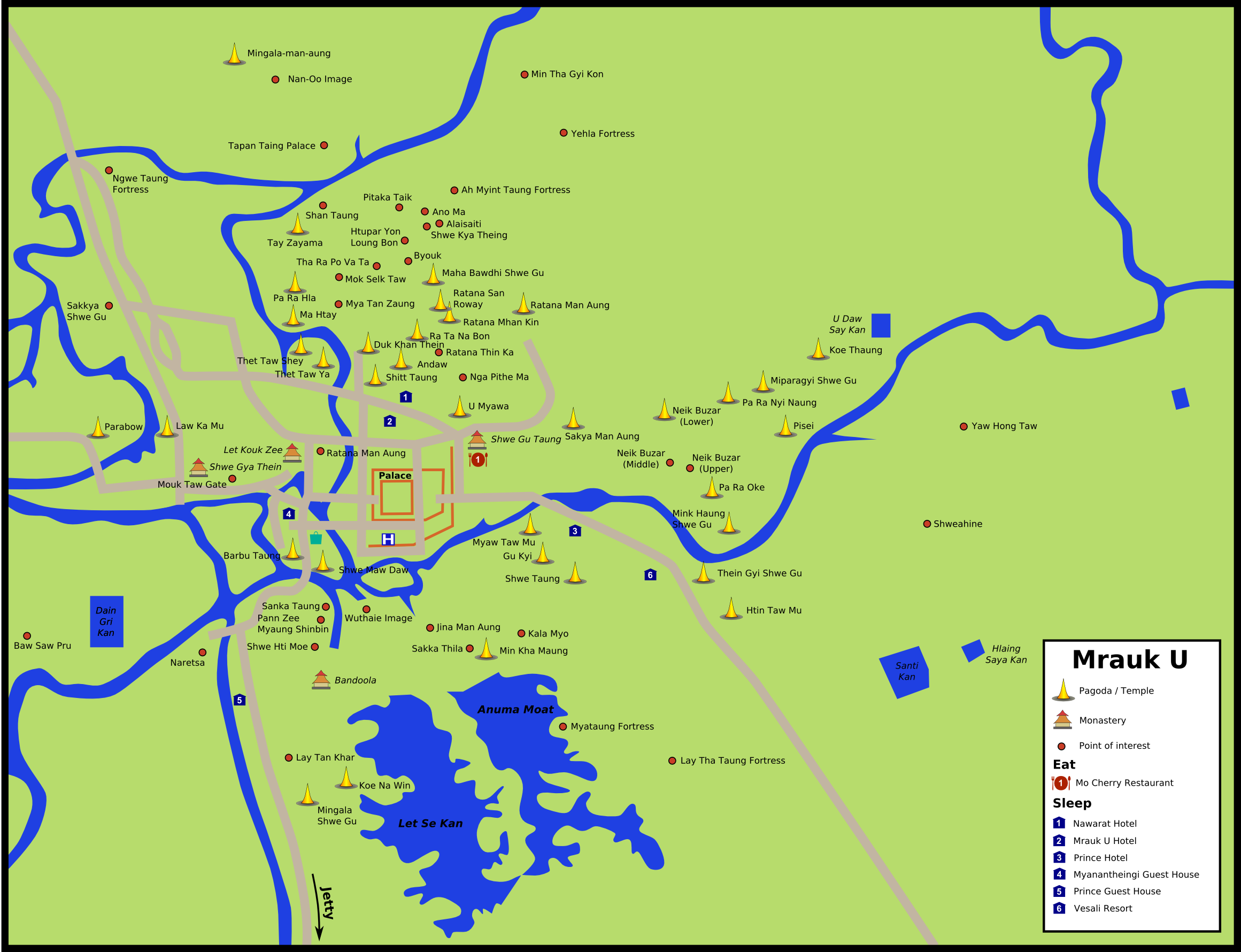 Map of Mrauk U